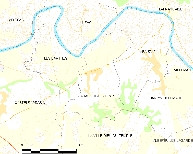 Map of French municipality Labastide-du-Temple